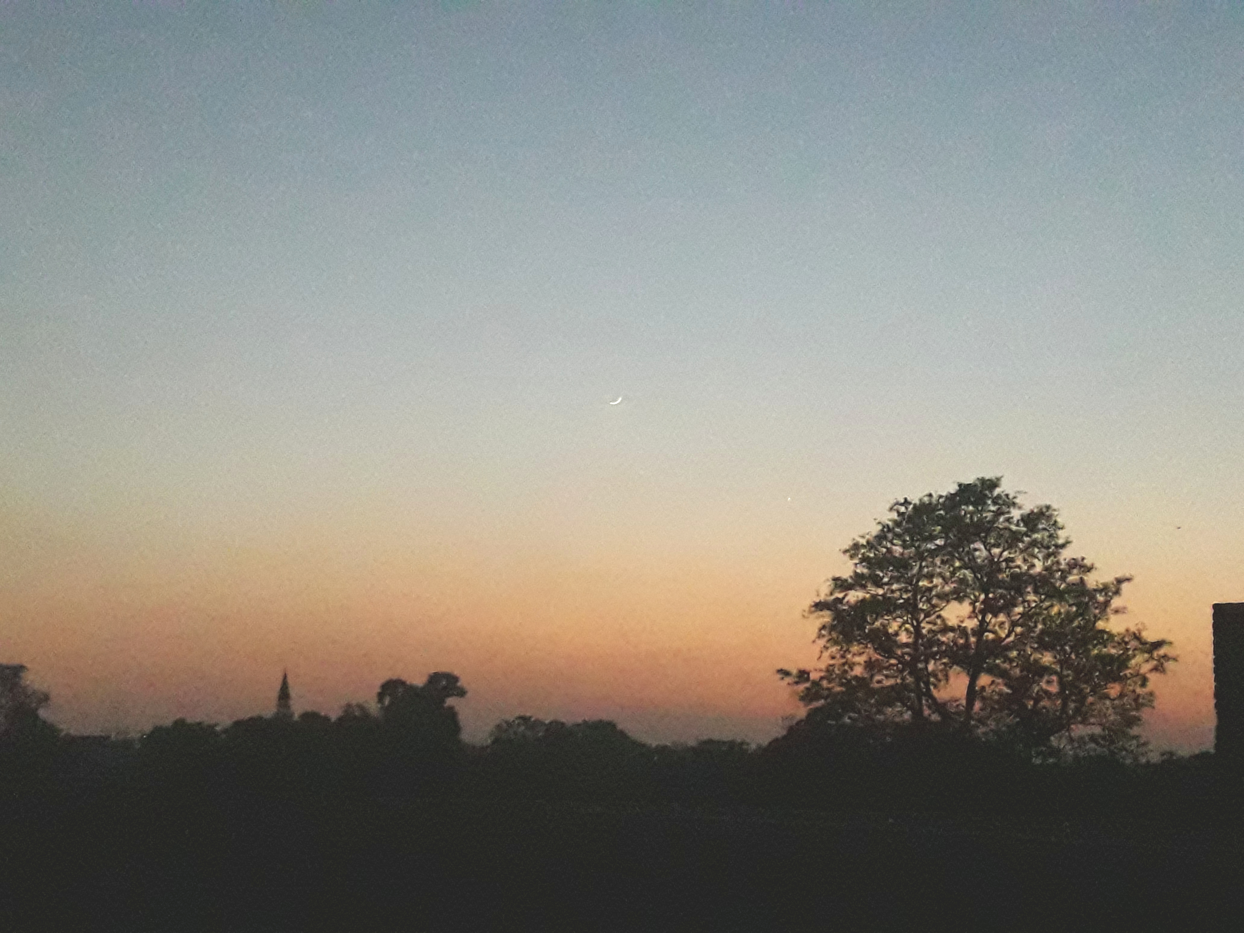 Crescent of Shawwal 1441 on the evening of 24th of May, 2020. The planet Venus is seen shining in the west right next to the moon